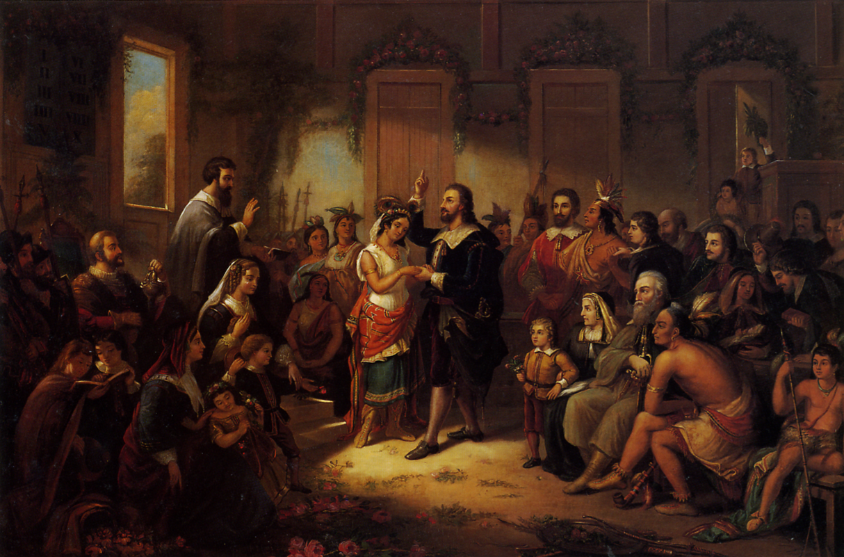 50in x 70in (126cm x 178cm)